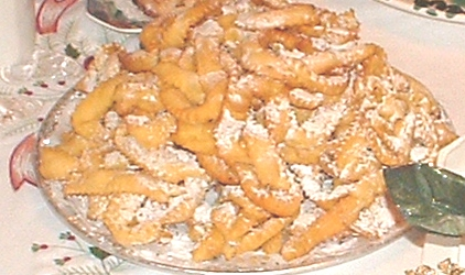 Picture of Losi - a fried pastry made with lemons from the island of Susak I took this picture in December 2003 and own the copyright.